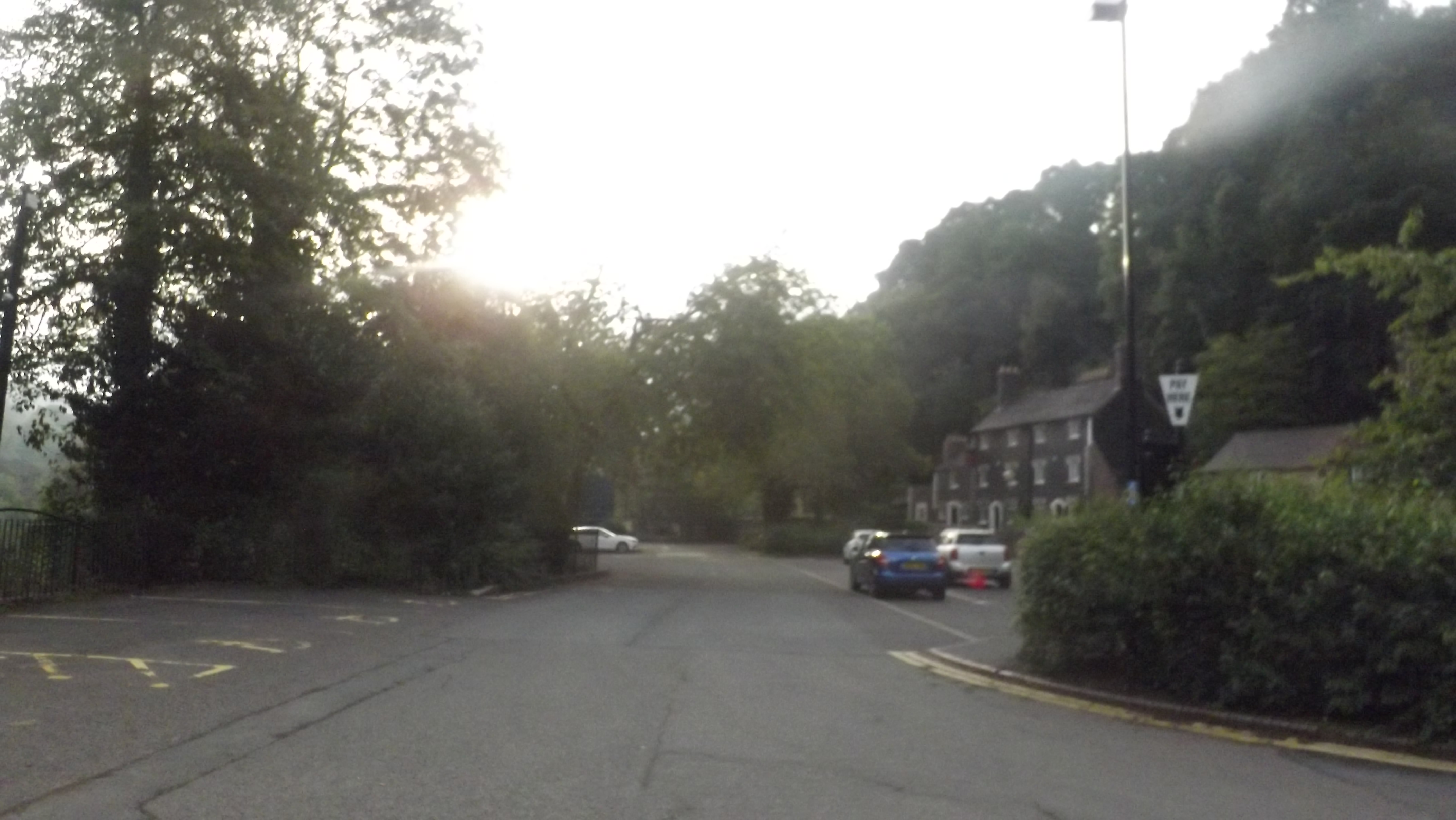 My own